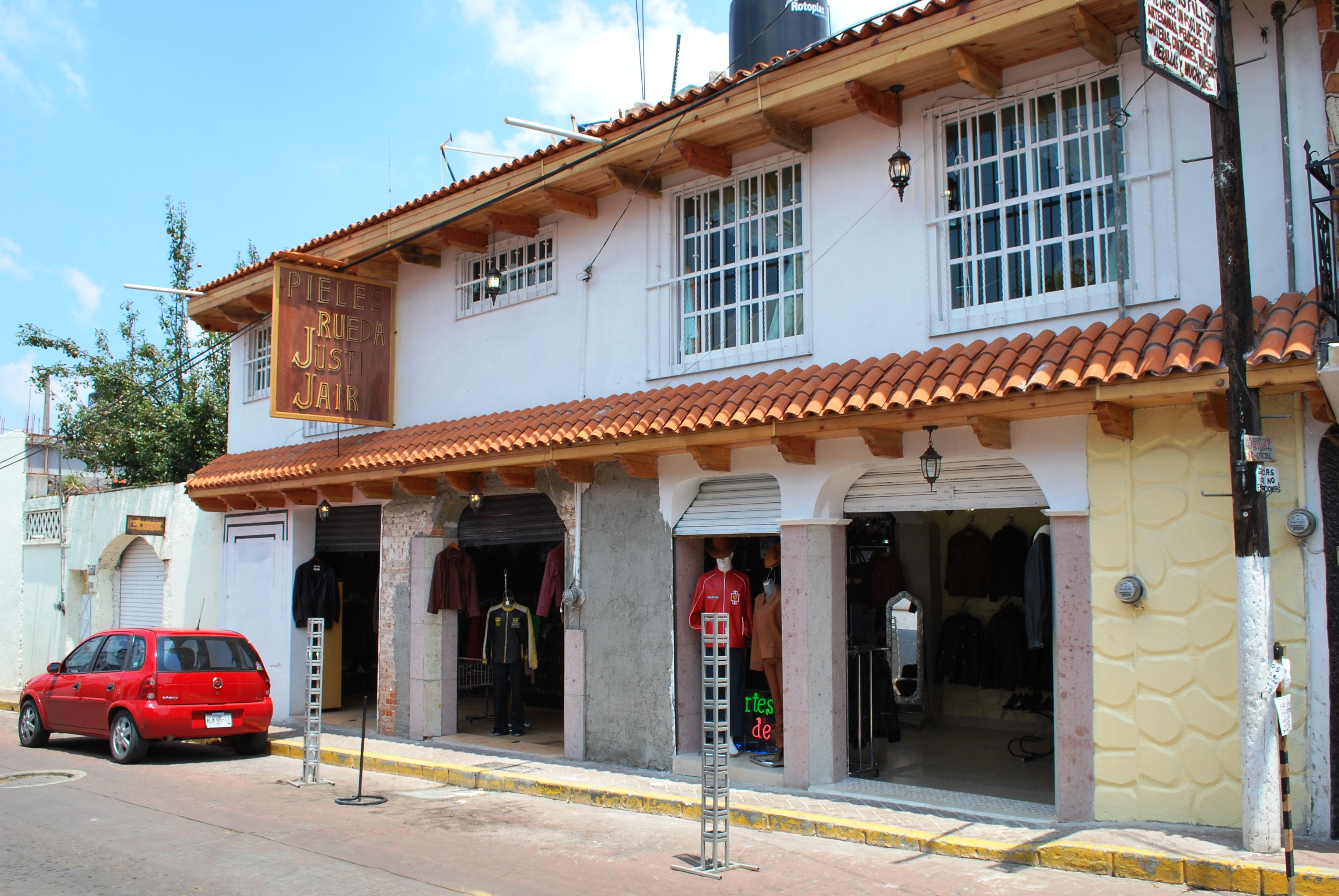 One of the many leather products shops in Villa del Carbon, Mexico State, Mexico